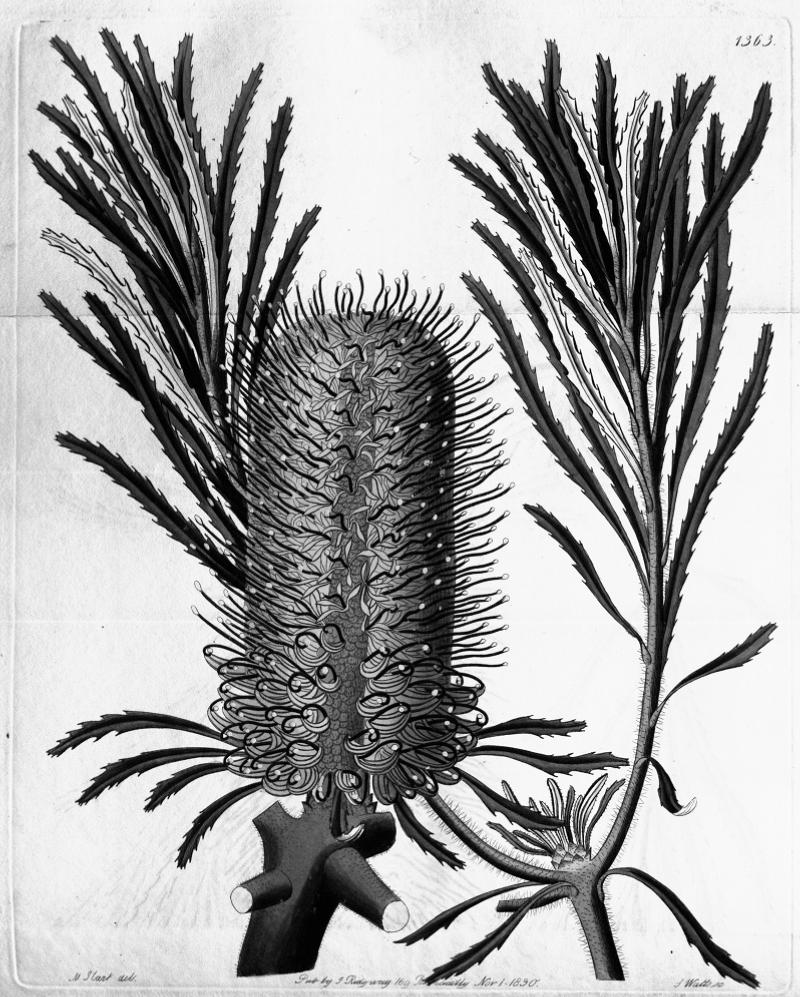 This is a black and white scan of Edwards's Botanical Register, Volume 16, Plate 1363. Banksia littoralis (Banksia littoralis R.Br.).